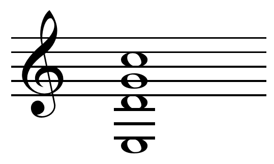 Steely Dan chord. Created by Hyacinth (talk) 20:41, 29 November 2010 using Sibelius 5.